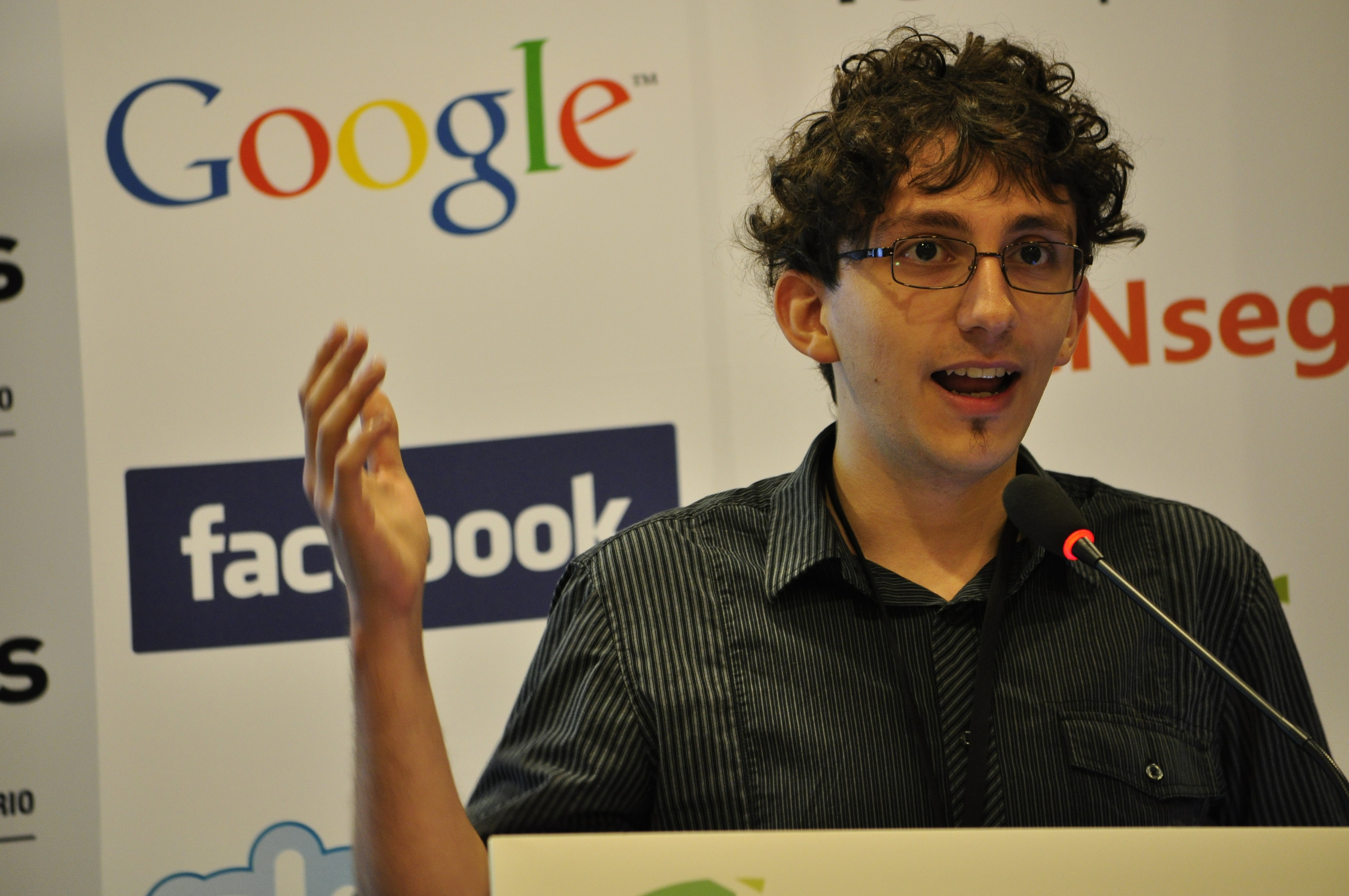 Cryptocat developer Nadim Kobeissi speaking on RightsCon in Rio de Janeiro in 2012 (